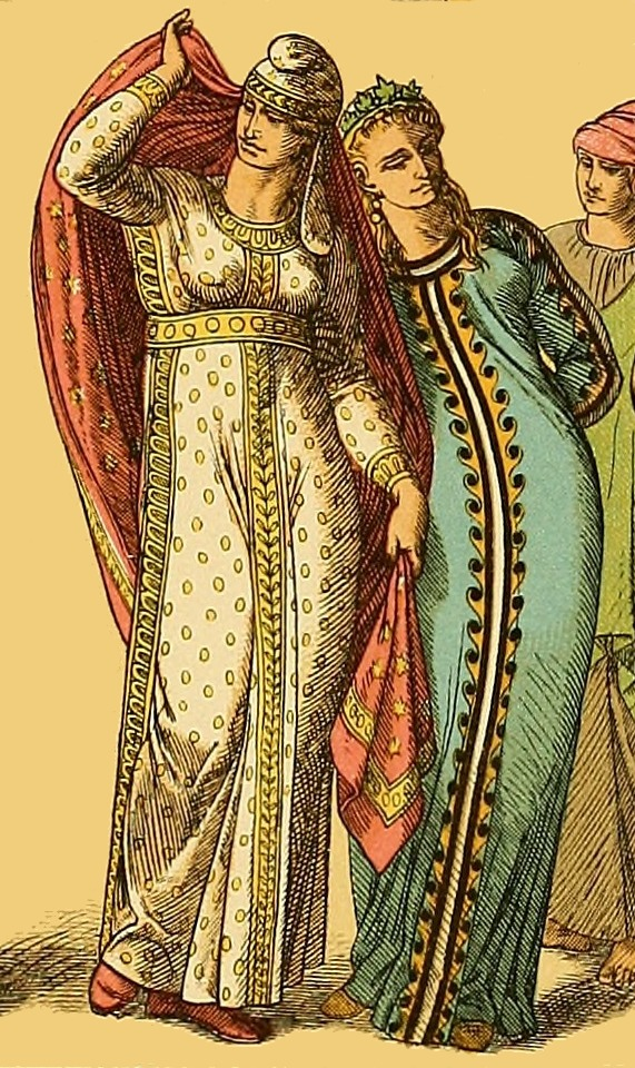 Clothing of two Phrygian females.